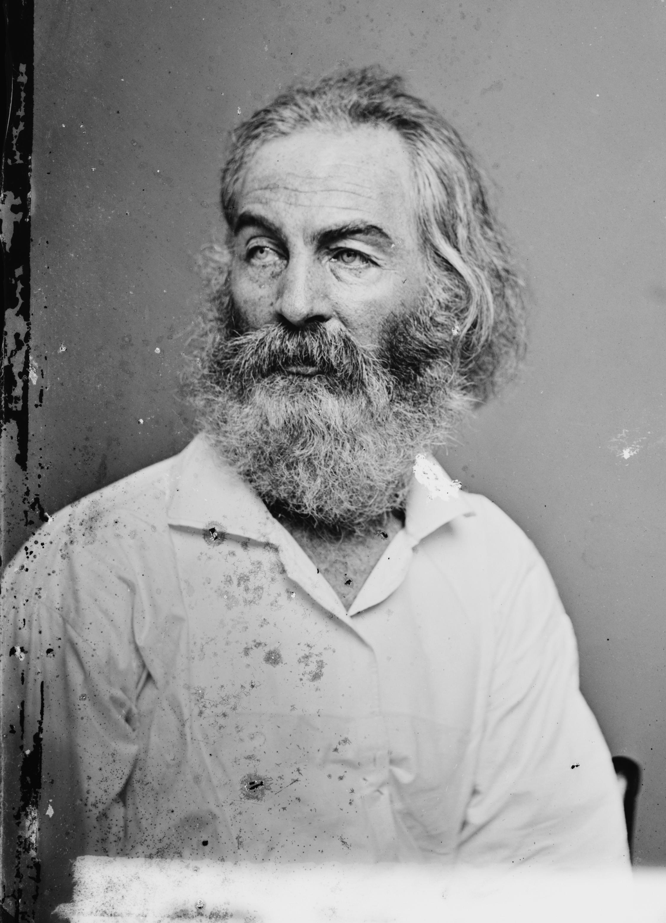 Walt Whitman. Library of Congress description: "Walt Whitman".